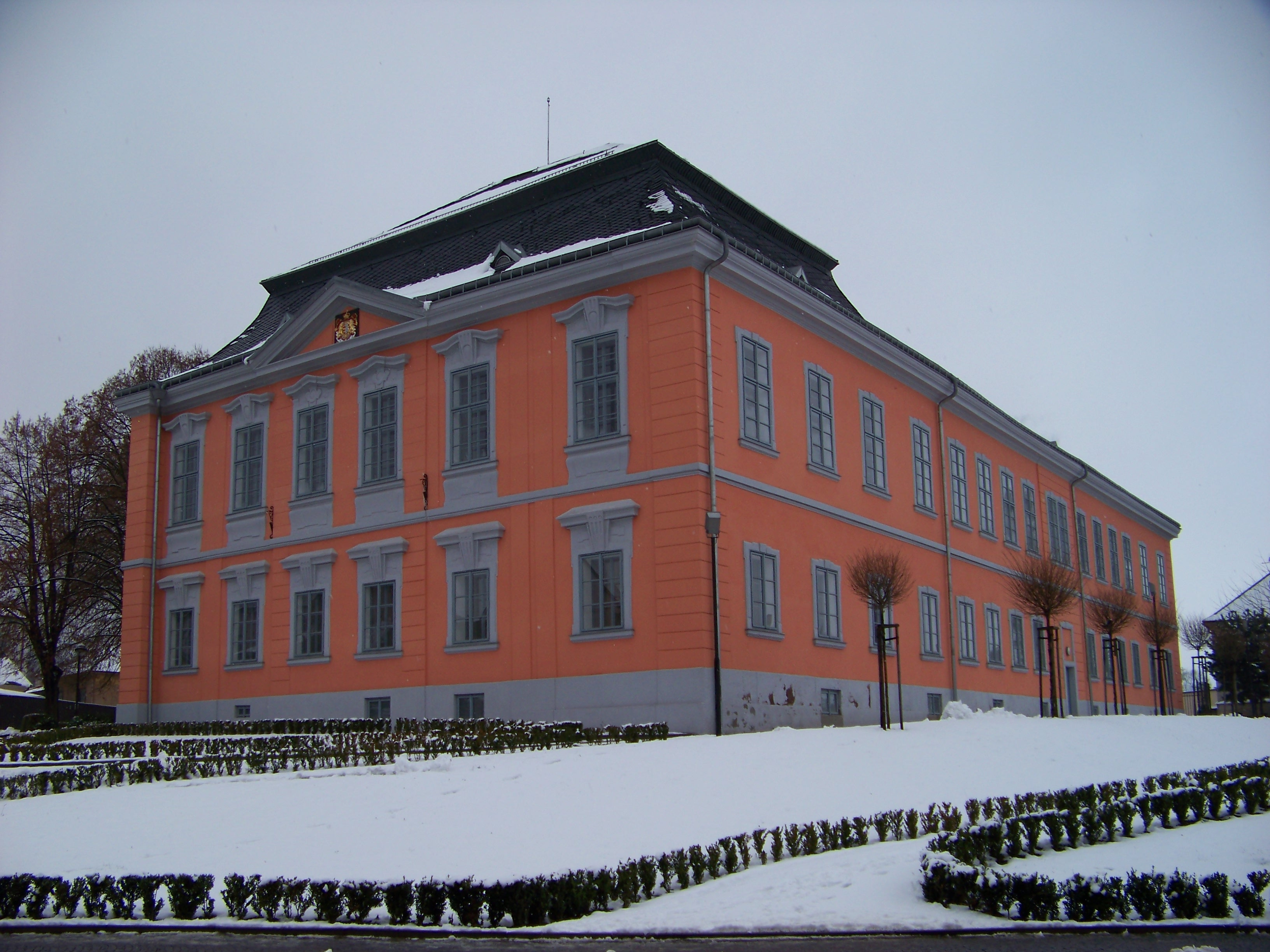 Lomnice nad Popelkou, Semily District, Liberec Region, Czech Republic. The castle. - OpenStreetMap (Info)